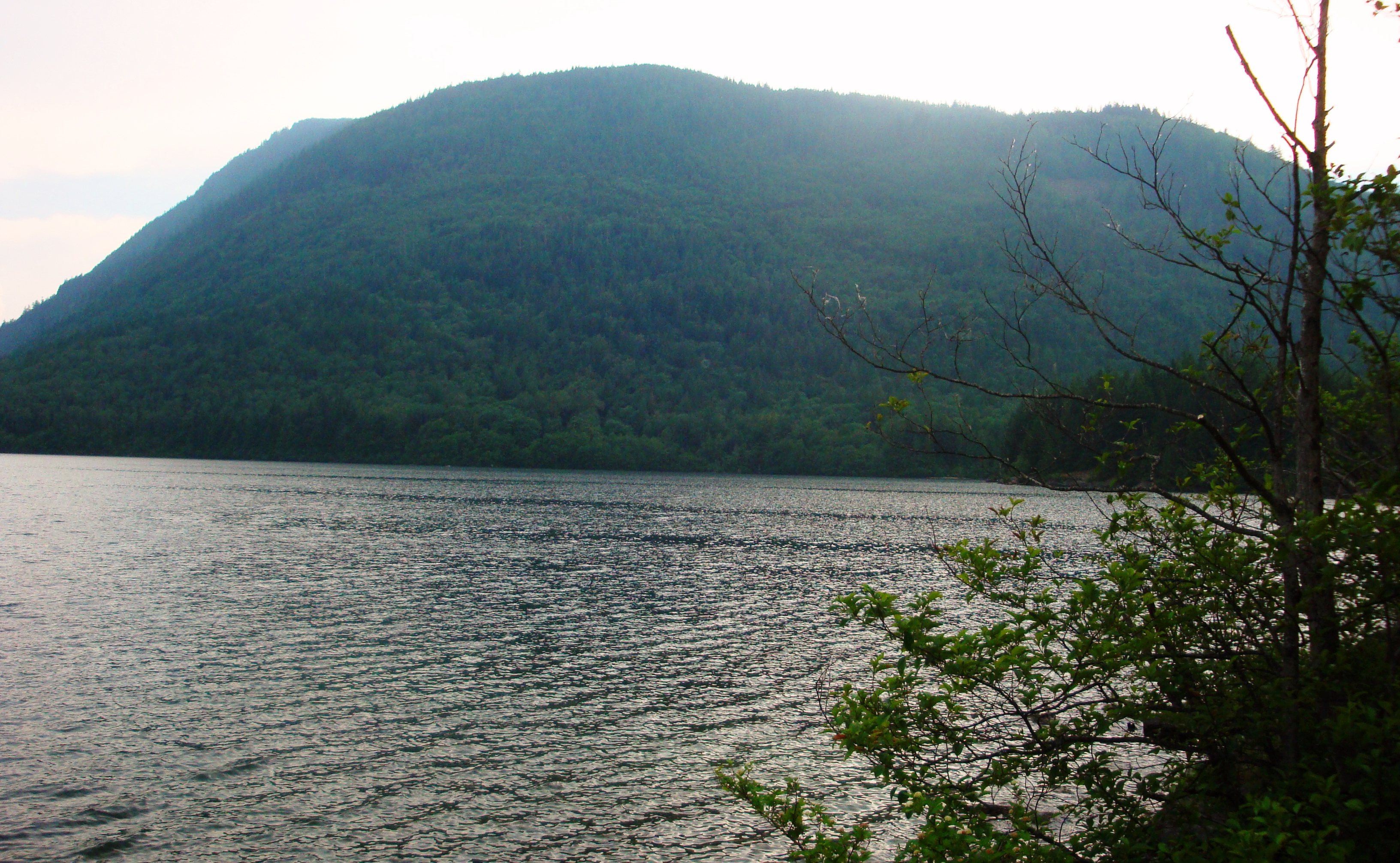 Looking east over Sasquatch Provincial Park's Hicks Lake from the south end of the southern island.